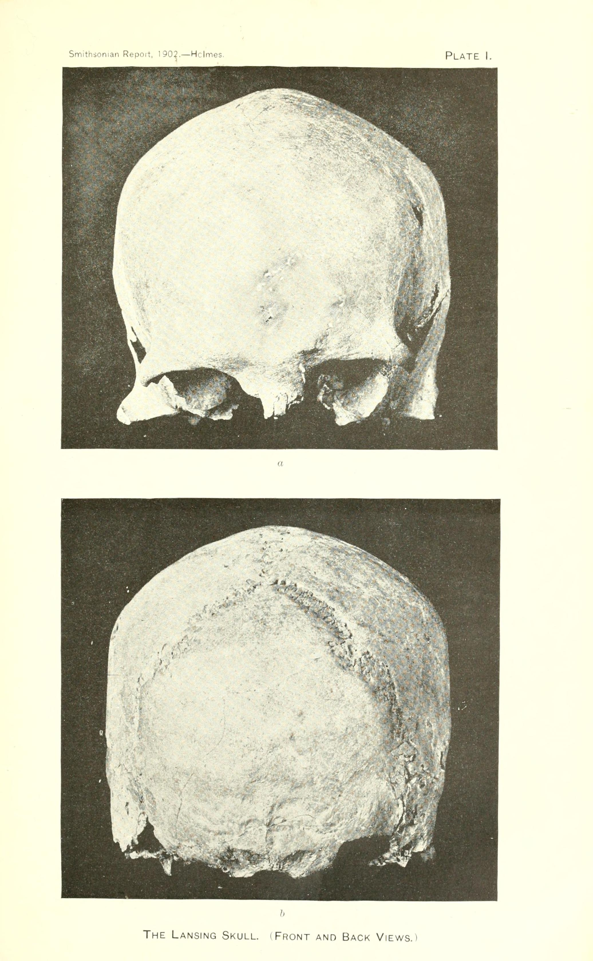 Plate I. The Lansing Skull (front and back views)